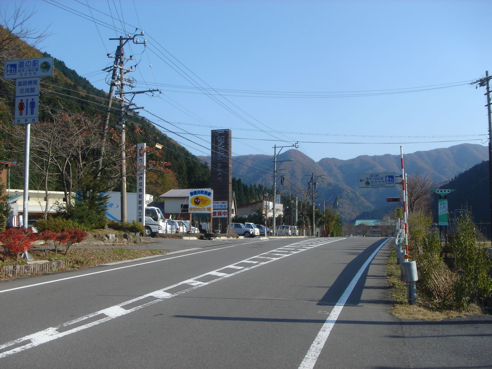 Michinoeki Yashagaikenosato Sakauchi in Ibigawa Town, Gifu Prefecture, Japan